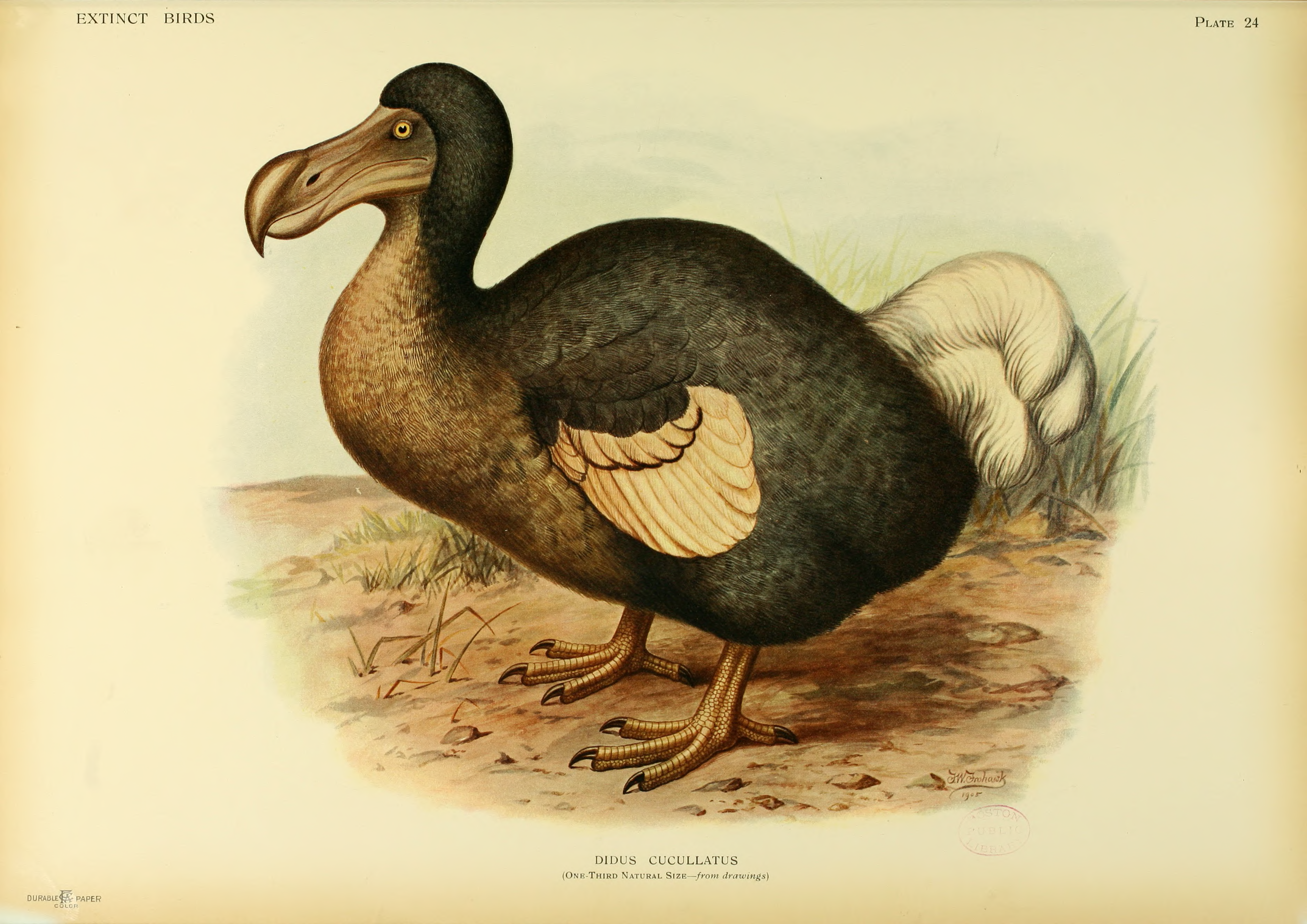 The dodo (Raphus cucullatus) was a flightless bird endemic to the Indian Ocean island of Mauritius.